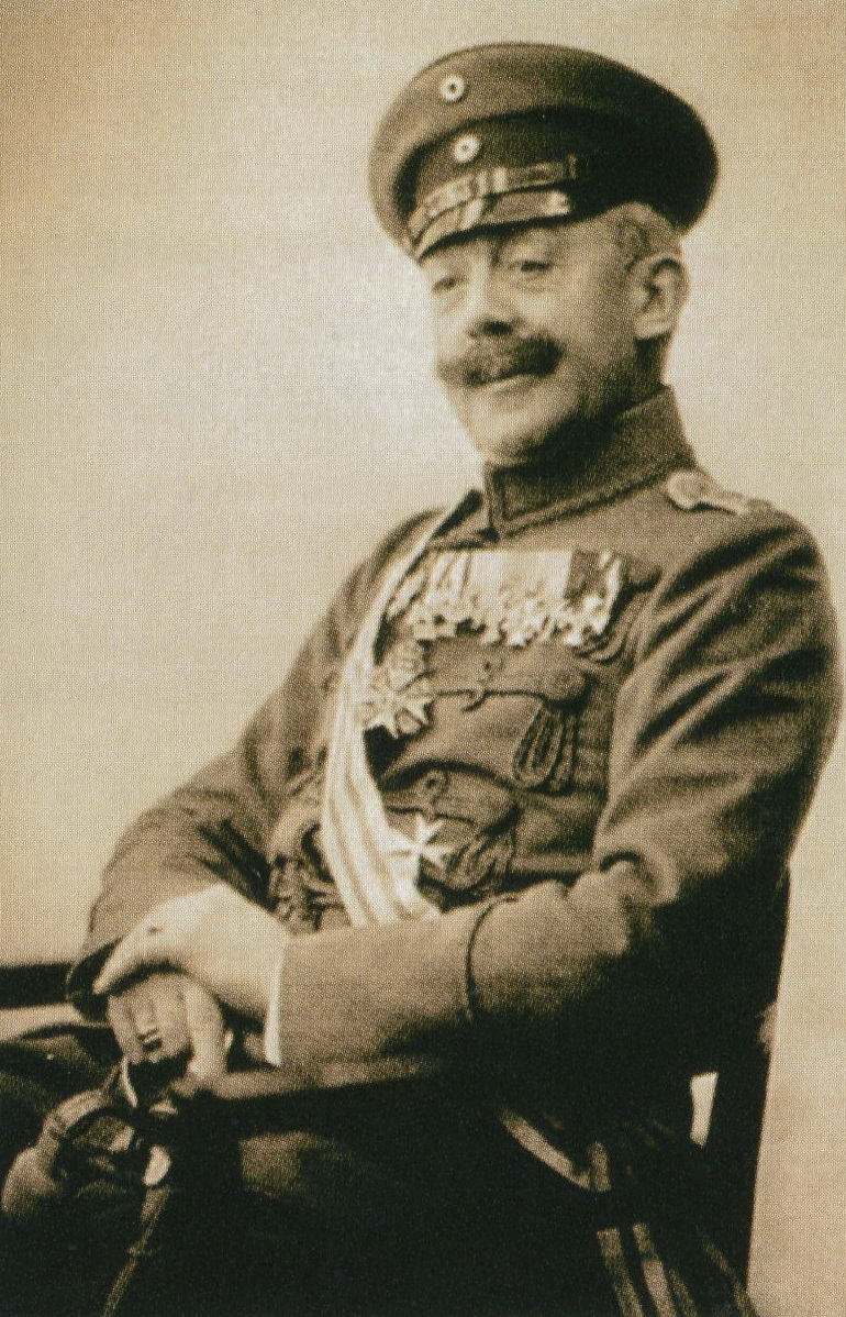 prussian aristocracy in malitaryuniform